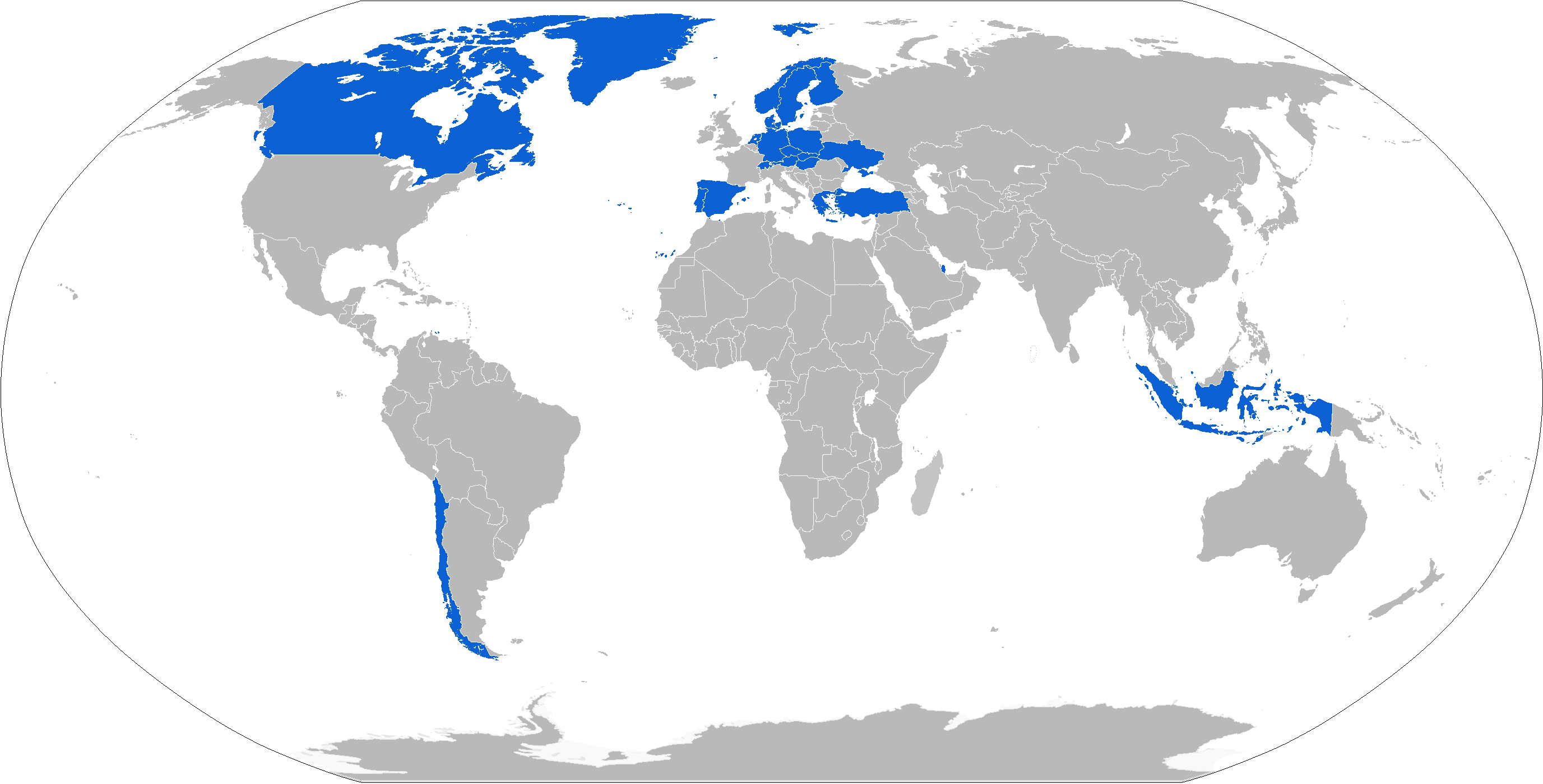 Map of Leopard 2 operators in blue with former operators in red.